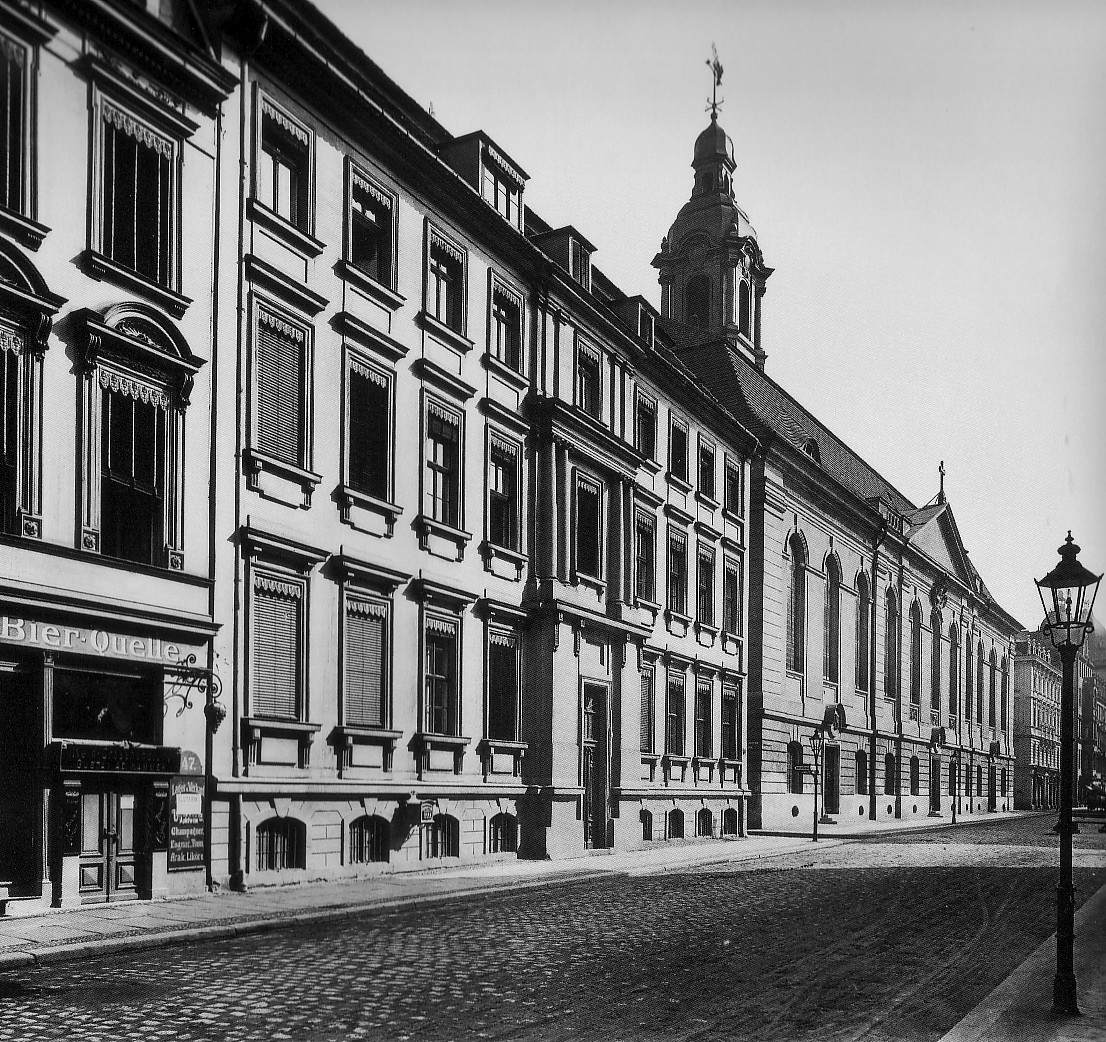 The old Garrison Church in Neue Friedrichstrasse in Berlin-Mitte (Germany). Destroyed in World War II.